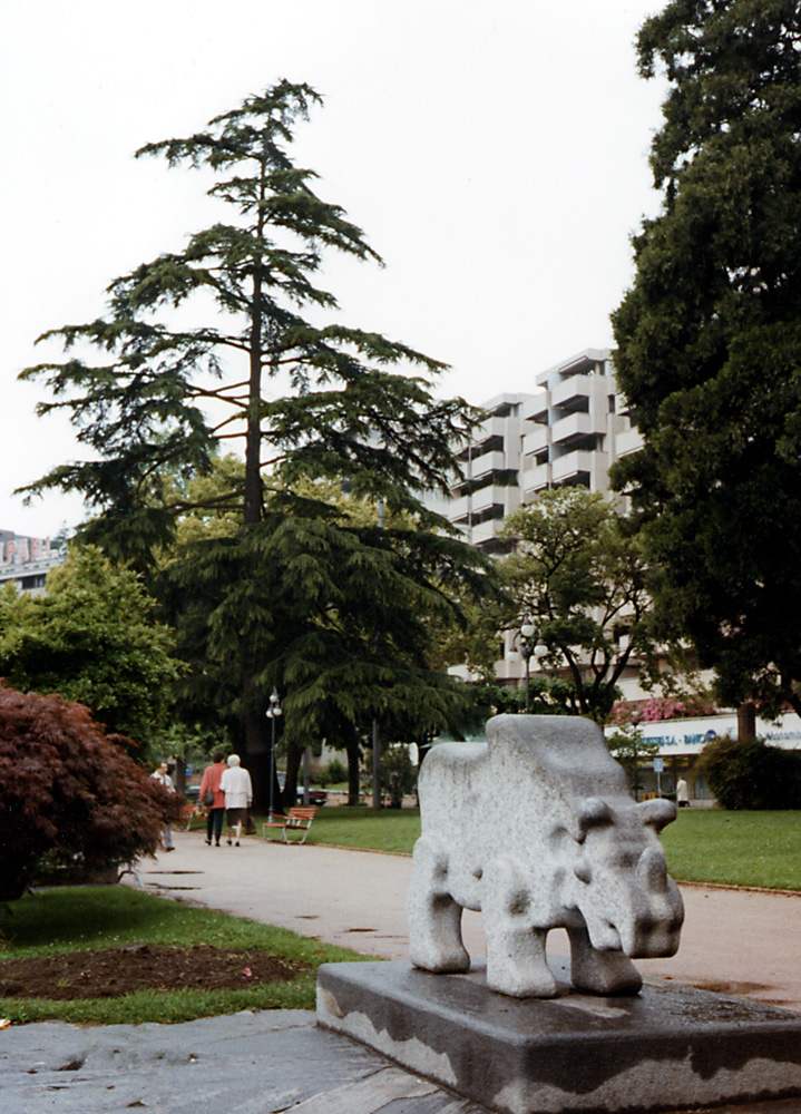 Country: Switzerland City: Lugano Location: Statue park along the shores of lake Lugano Artist: Unknown Name: Unknown